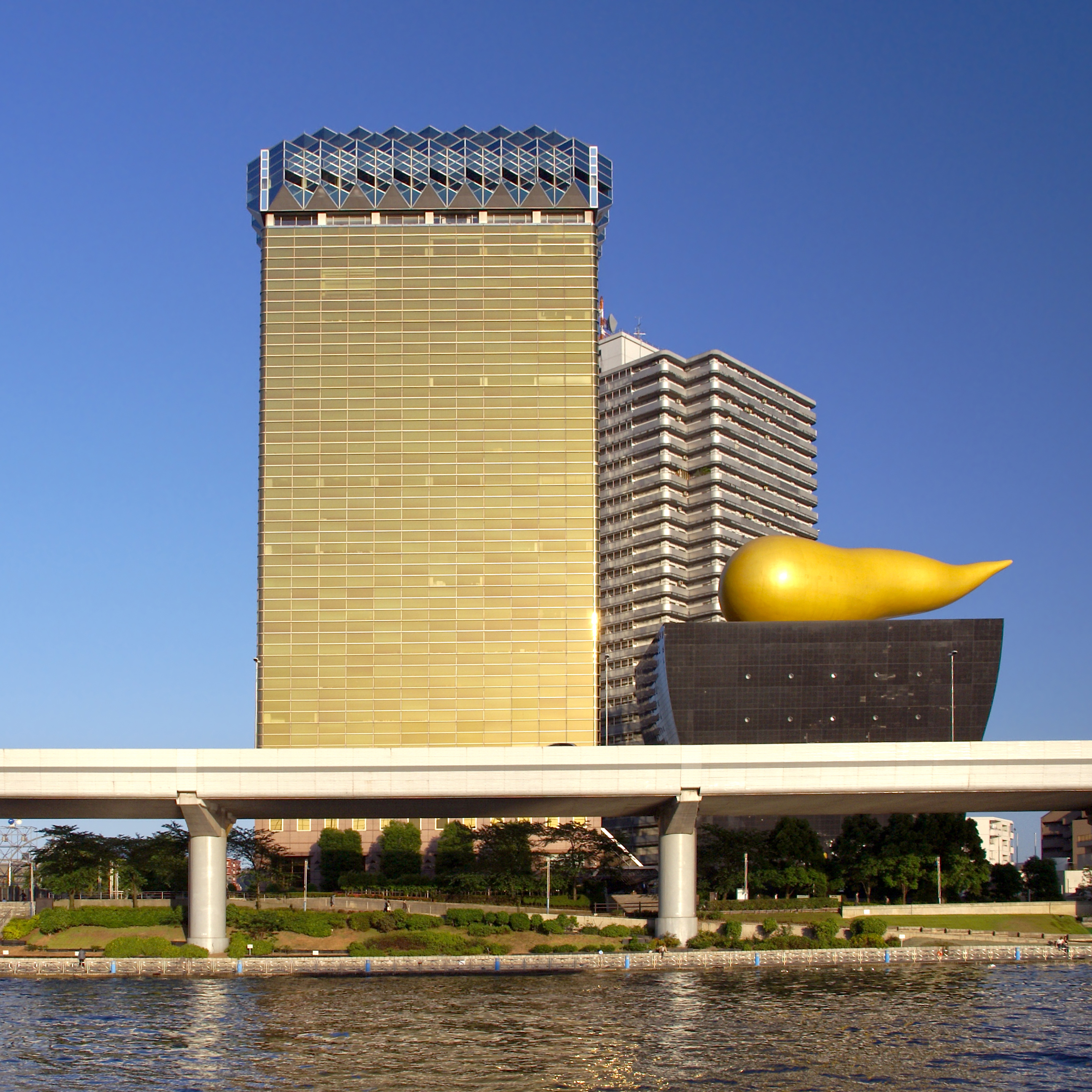 Asahi Breweries Head Quarters in Sumida-ku, Tokyo, Japan.